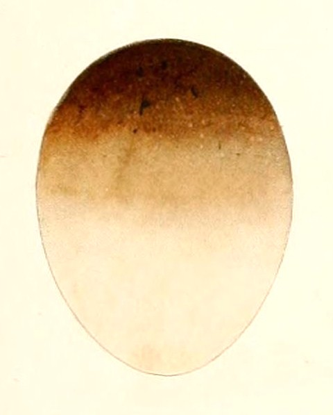 «Caprimulgus nacunda» = Chordeiles nacunda (Nacunda Nighthawk) - egg